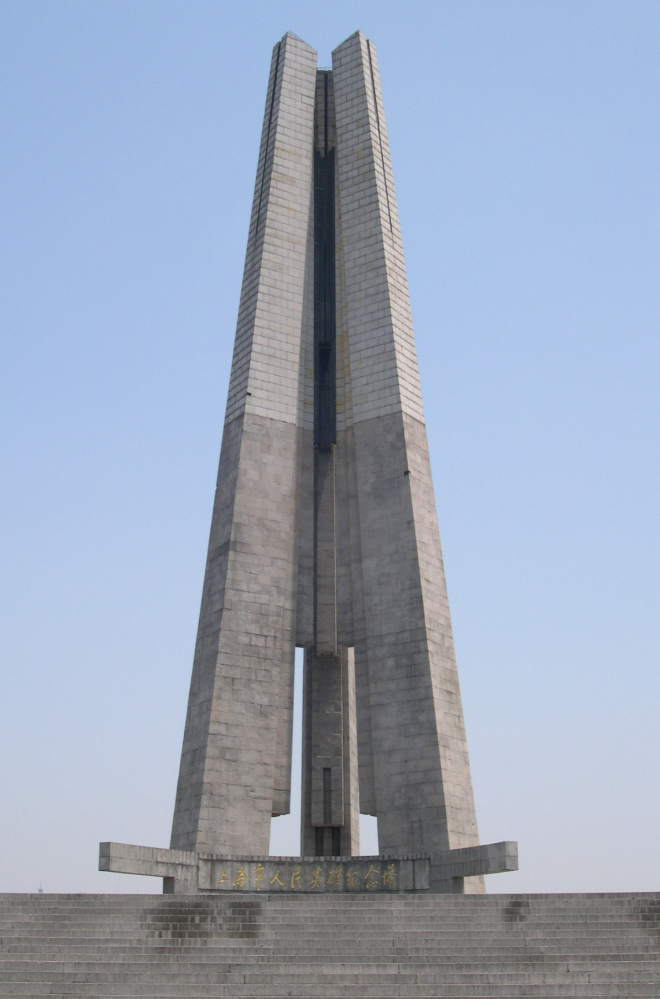 The Monument to the People's Heroes in Shanghai